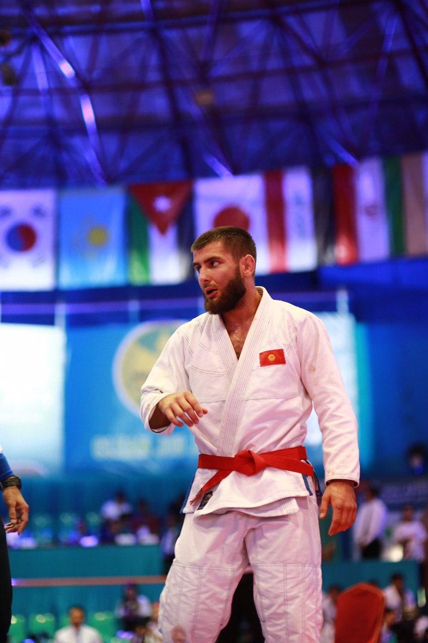 Abdurahmanhadzhi Murtazaliev becomes world grappling champion by IBJJF